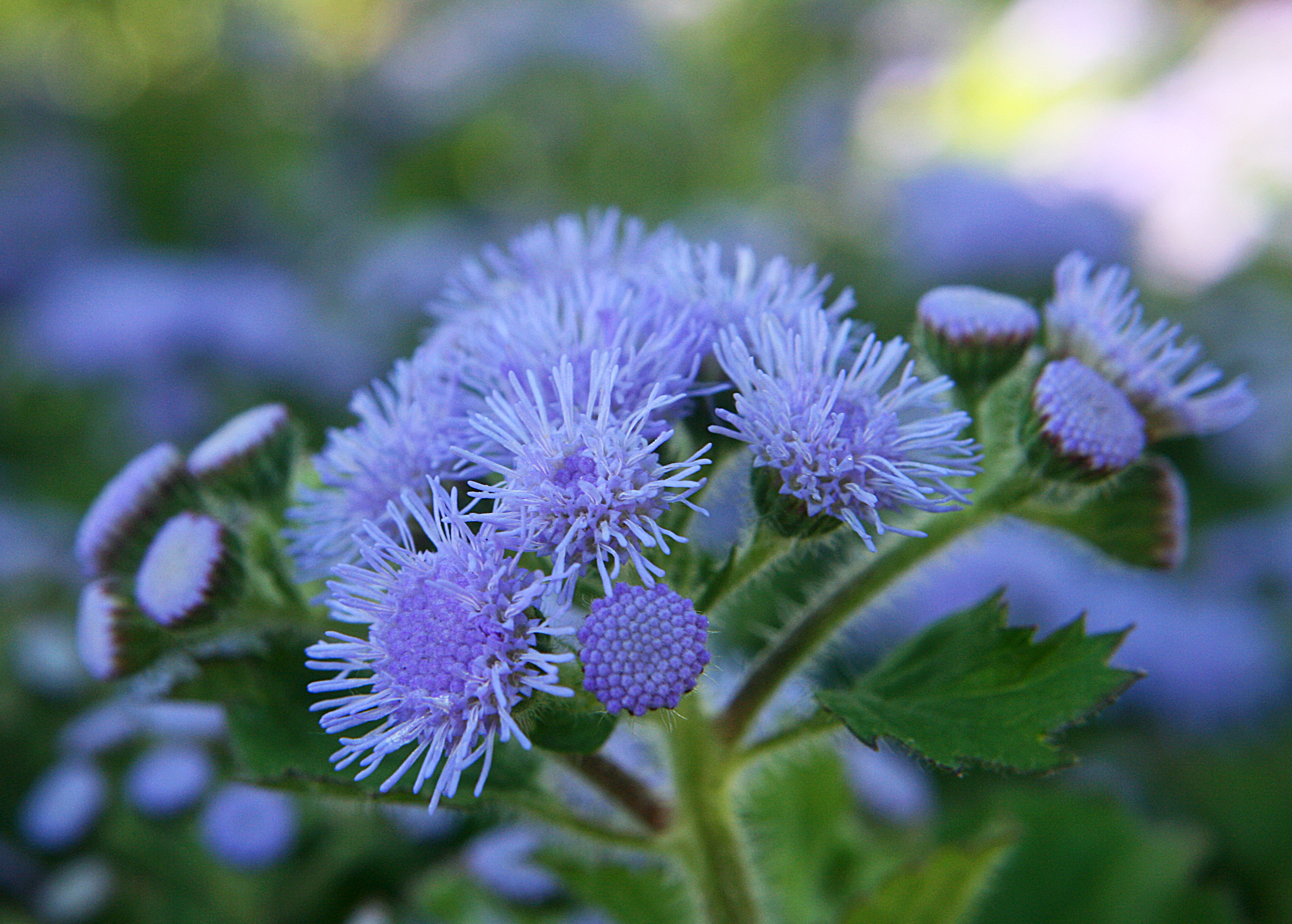 Ageratum houstonianum with blue flowers (Ageratum 'Hawaii Blue').